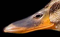 Anas platyrhynchos: beak-compare female-male